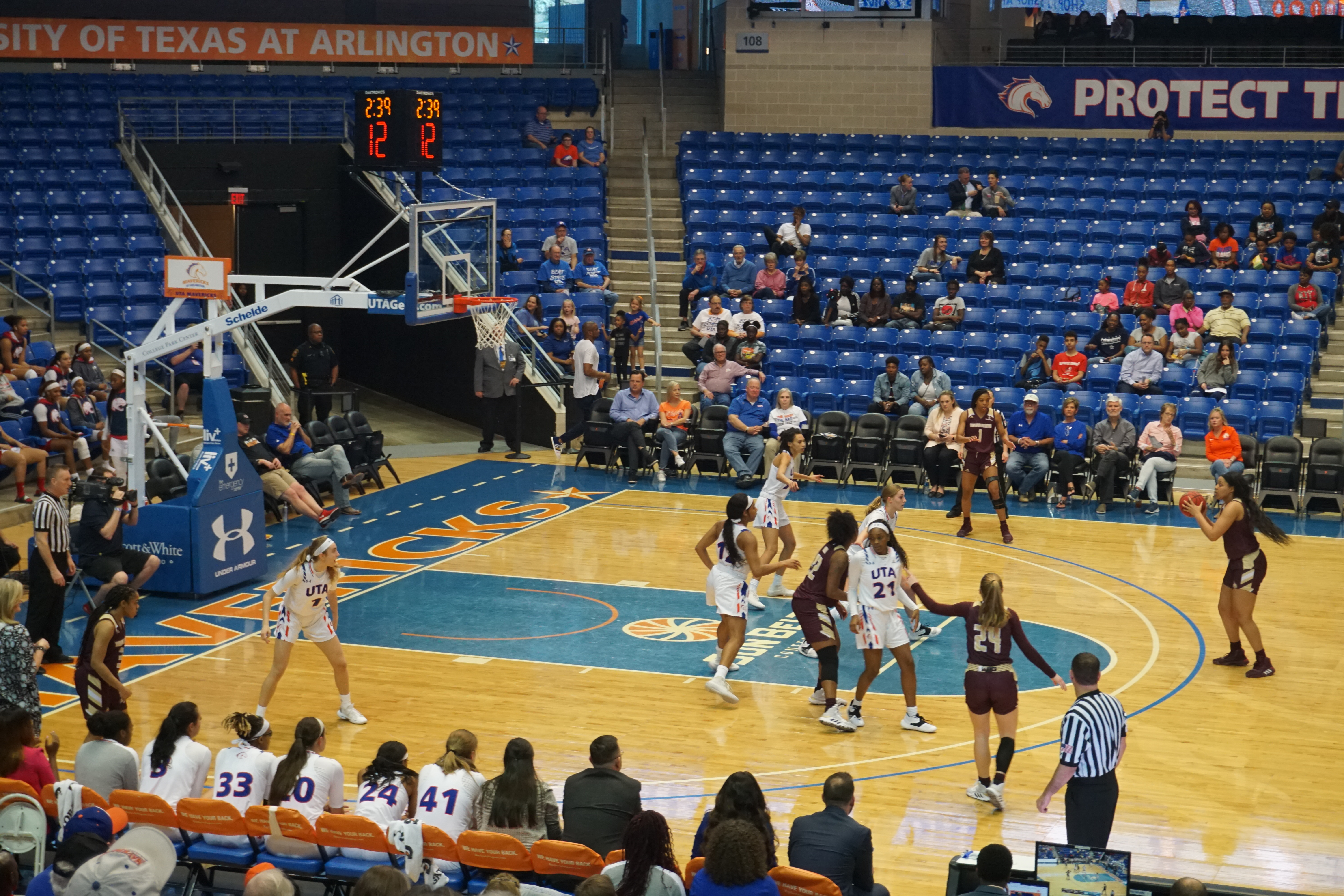 In-game action during the Texas State Bobcats vs. UT Arlington Mavericks women's basketball game at the 2020 Sun Belt Conference Women's Basketball Tournament at College Park Center in Arlington, Texas (United States). UT Arlington won 74–50.